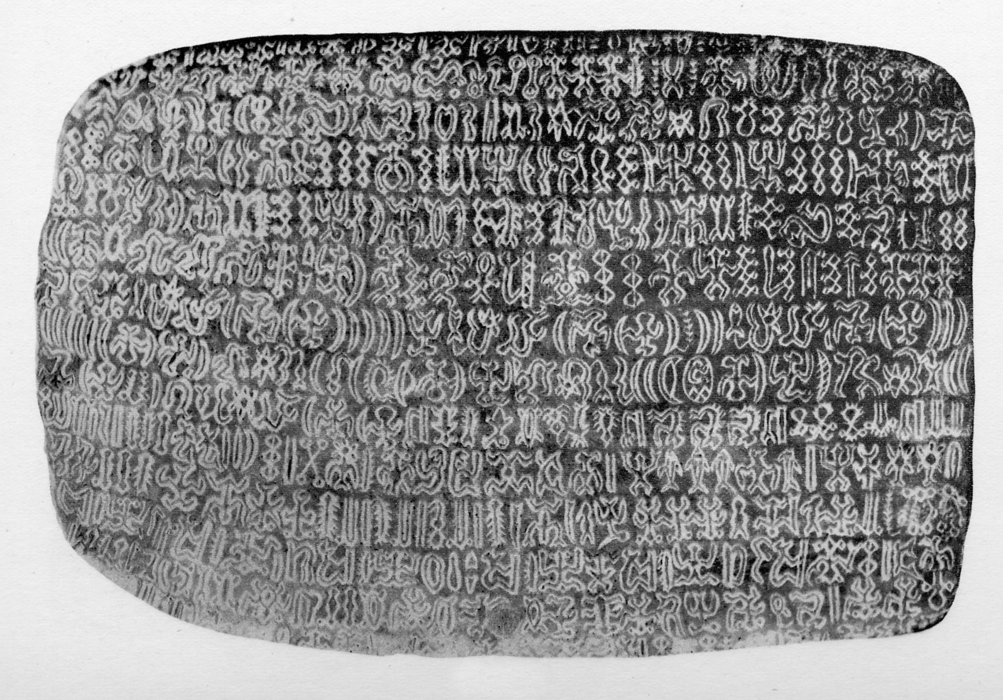 Side a of rongorongo Tablet C, or Mamari. 30 centimeters long and 21 centimeters wide, with a total of 21 lines of signs. The photograph was taken in Papeete by Widow Hoare, while the tablet was in Jaussen’s possession.